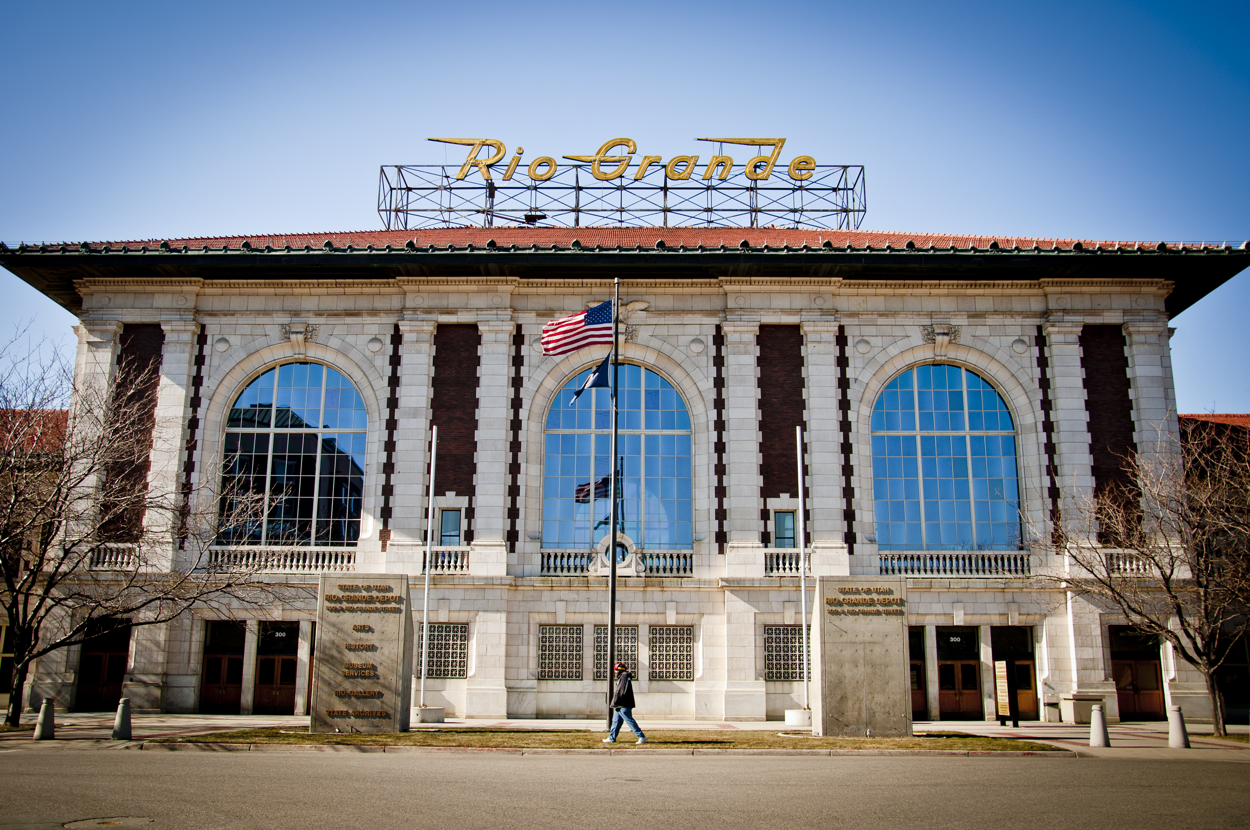 The Denver & Rio Grande Western Depot. This building was completed in 1910 and put into revenue service in 1911, serving railroad passengers well into the late 1900's. It currently houses the Utah State Historical Society.